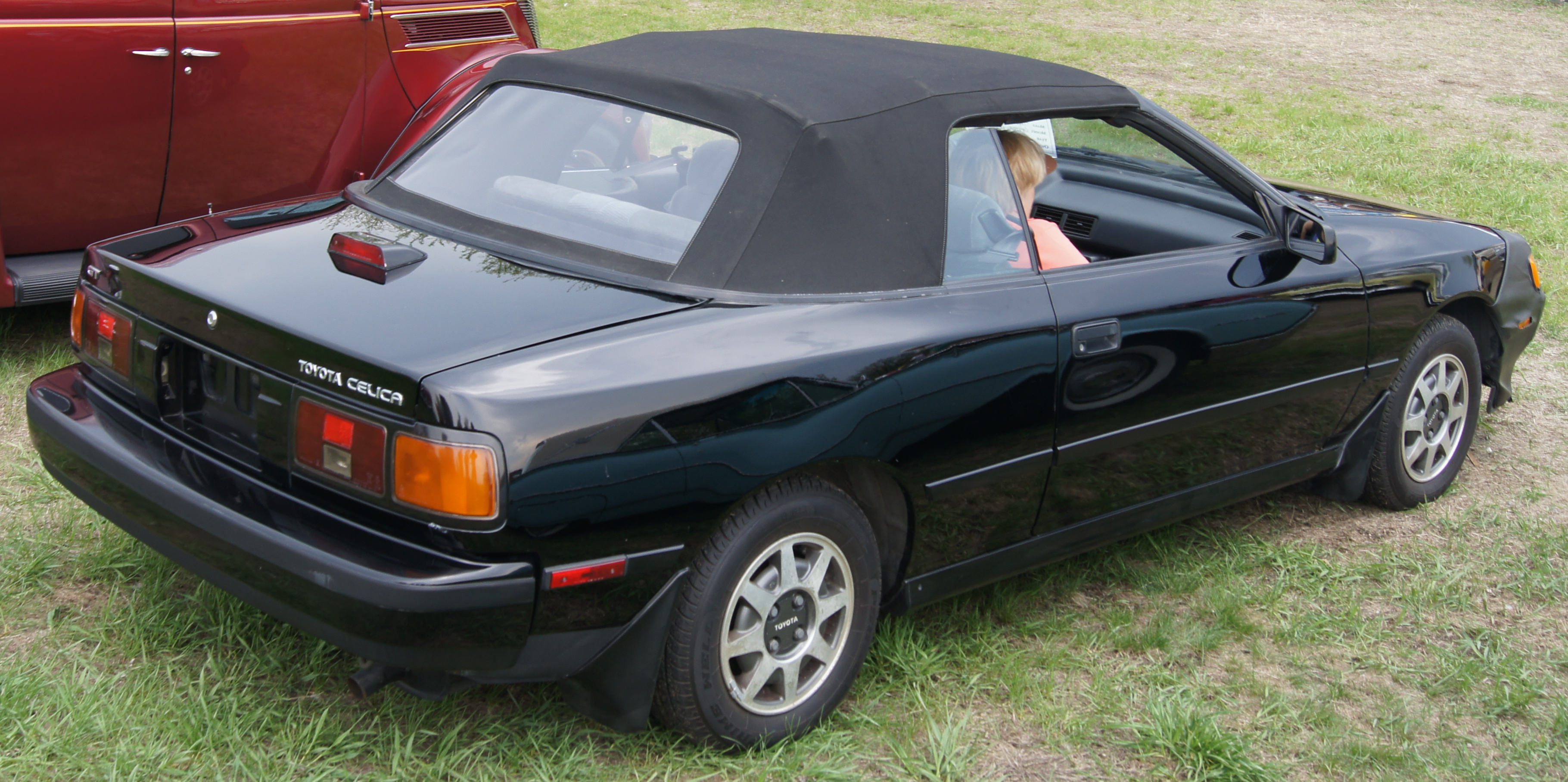 The evening before the Willmar Car Show & Swap Meet, Cars gather at the New London A&W Country Stop for a couple hours before cruising to the Kandi Mall in Willmar. Unfortunately this was the first year the cruise was rained out.